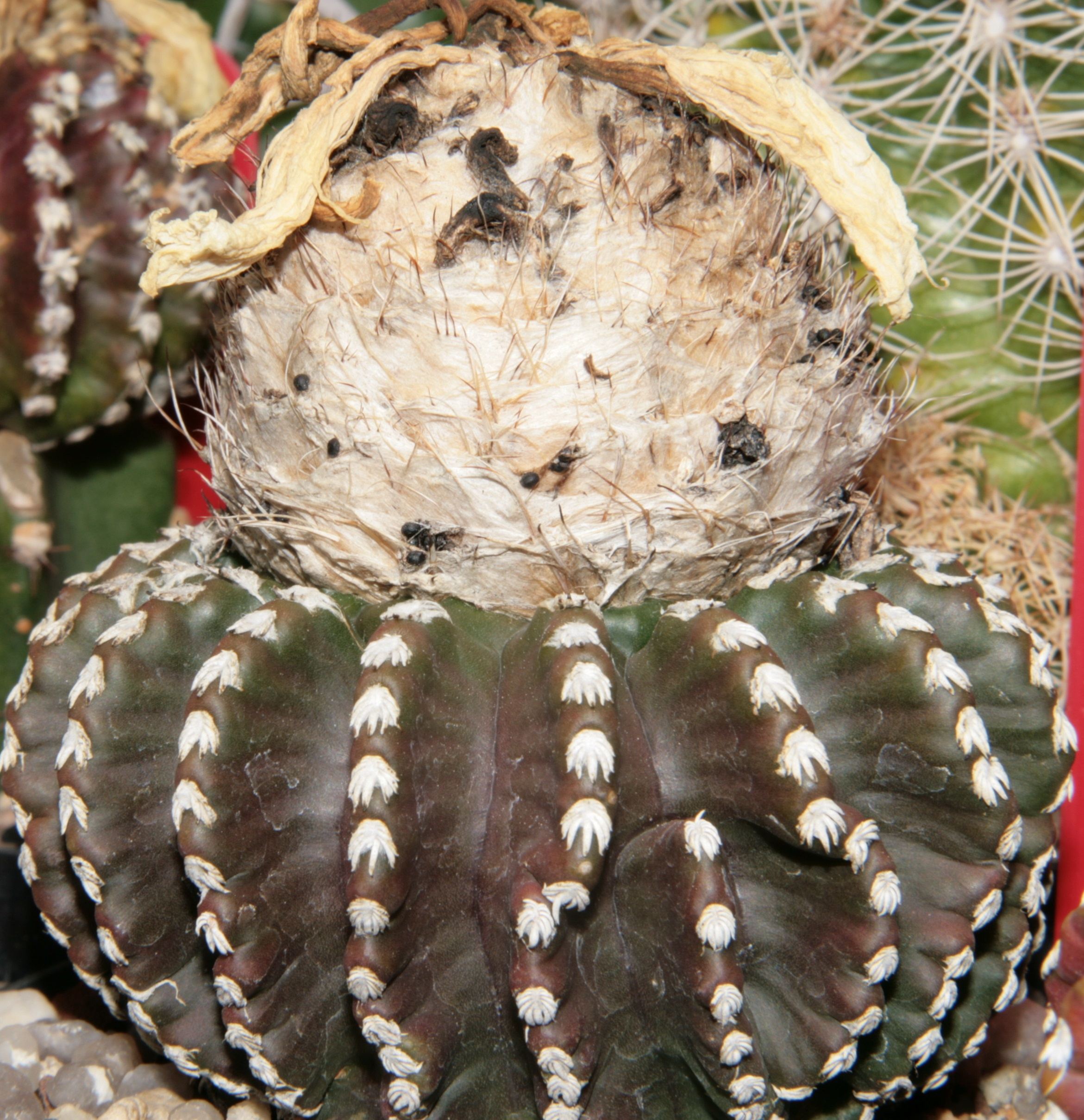 old plant from type locality, Minas Gerais, Brasil